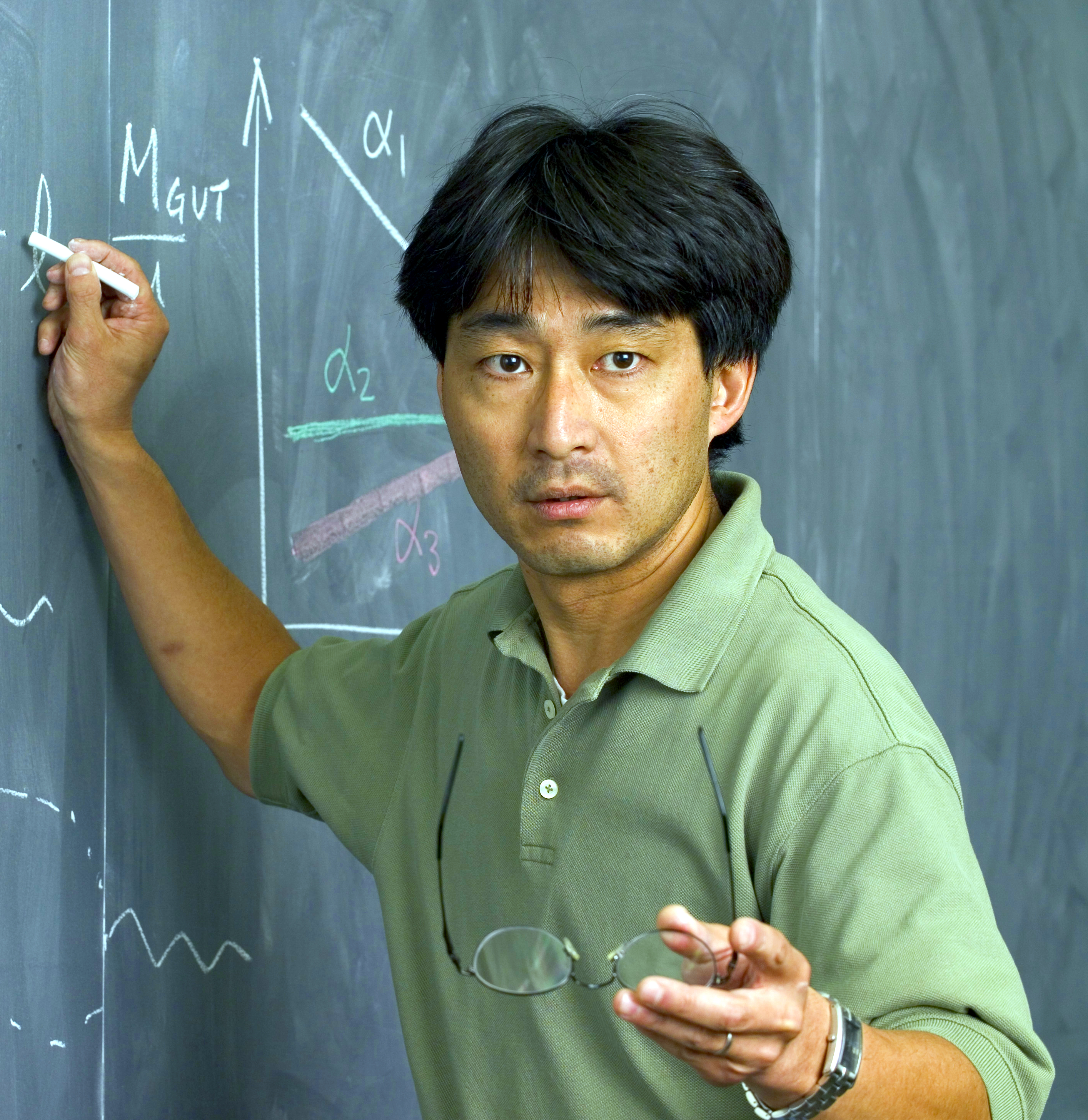 Hitoshi Murayama, MacAdams Professor of Physics, University of California, Berkeley, wrote on chalkboard on May 26, 2005.